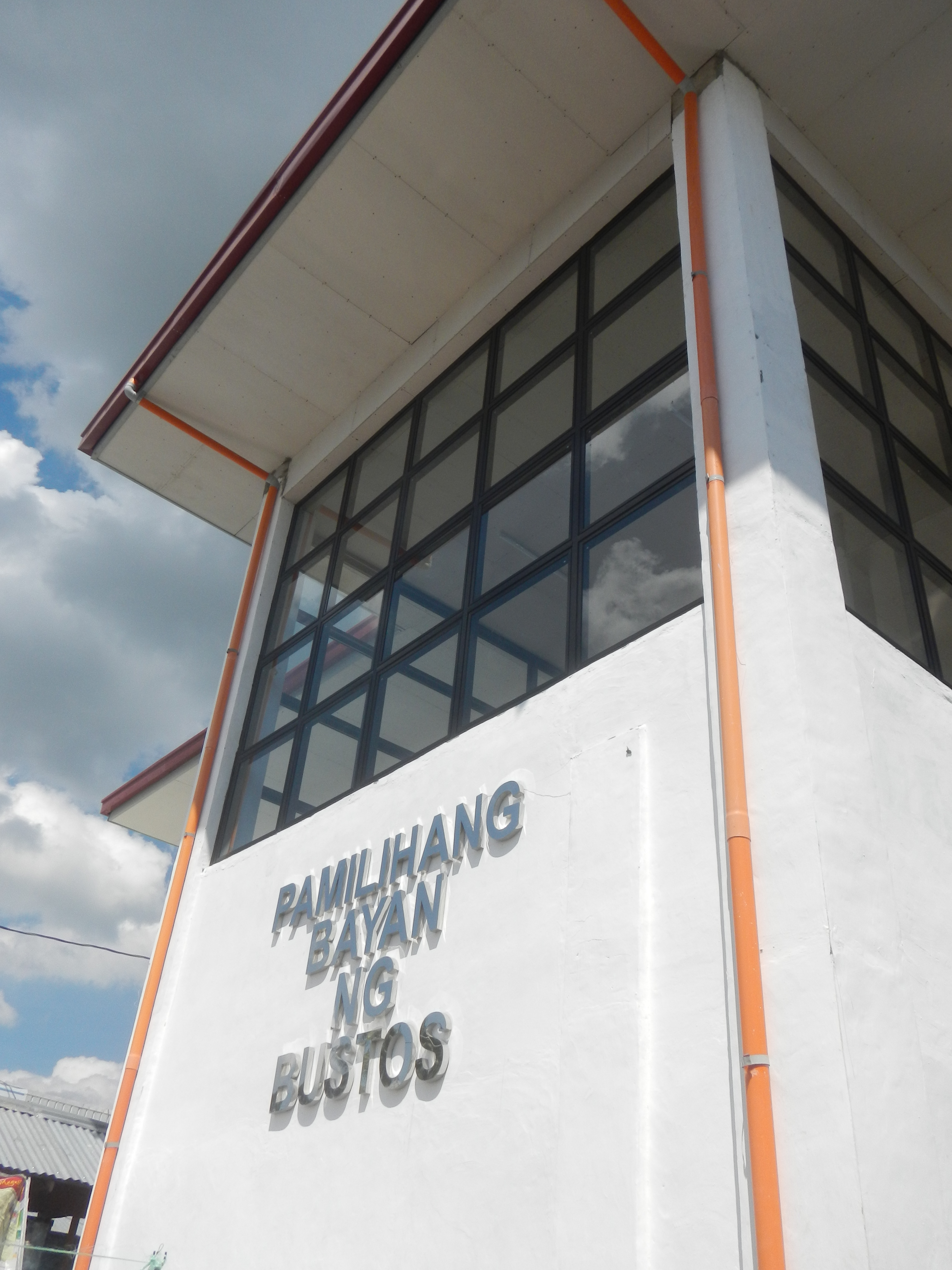 Construction of the New Bustos, Bulacan Public Market Barangay Poblacion 14°57'20"N 120°54'34"E, Bustos, Bulacan, Province Bulacan province (Note: Judge Florentino Floro, the owner, to repeat, Donor Florentino Floro of all these photos Judge Floro hereby donate gratuitously, freely and unconditionally all these photos to and for Wikimedia Commons, exclusively, for public use of the public domain, and again without any condition whatsoever).